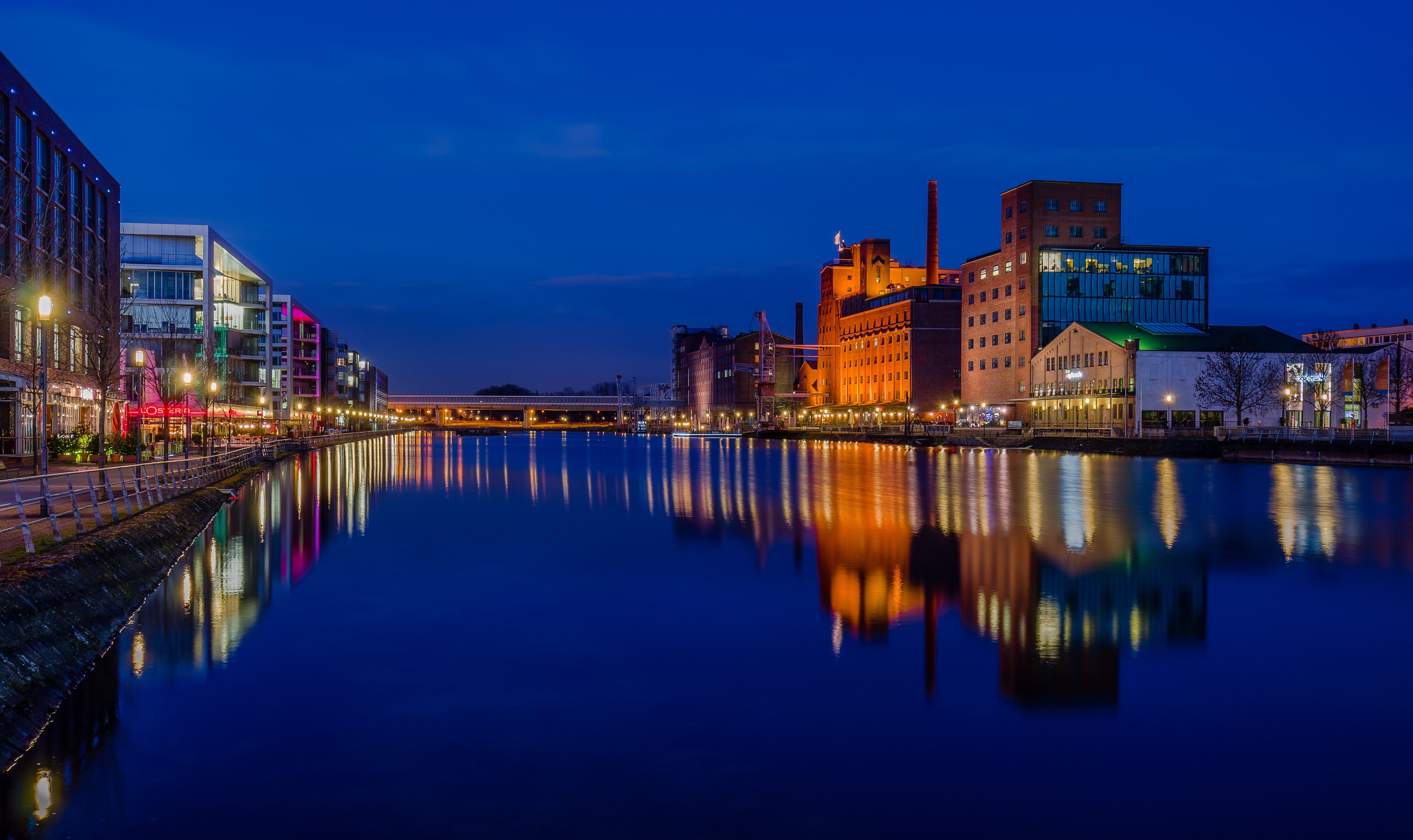 Nightly view of Duisburg Inner Harbour at blue hour